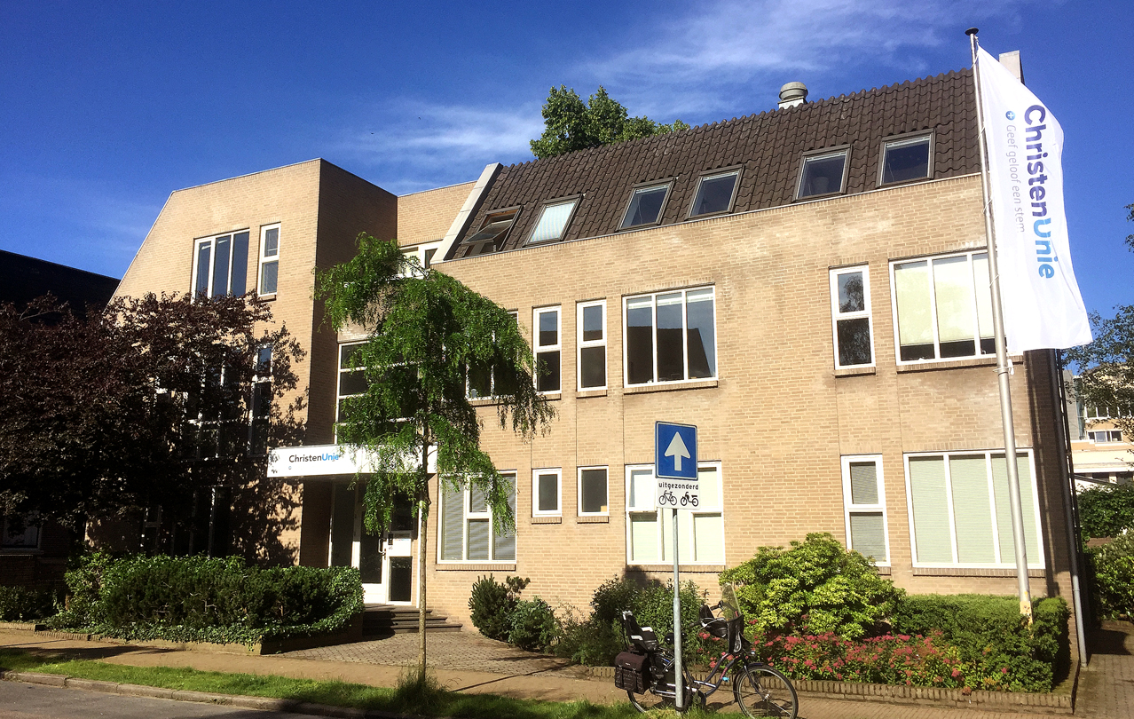 Party headquarters of the Christian Union, political party in the Netherlands